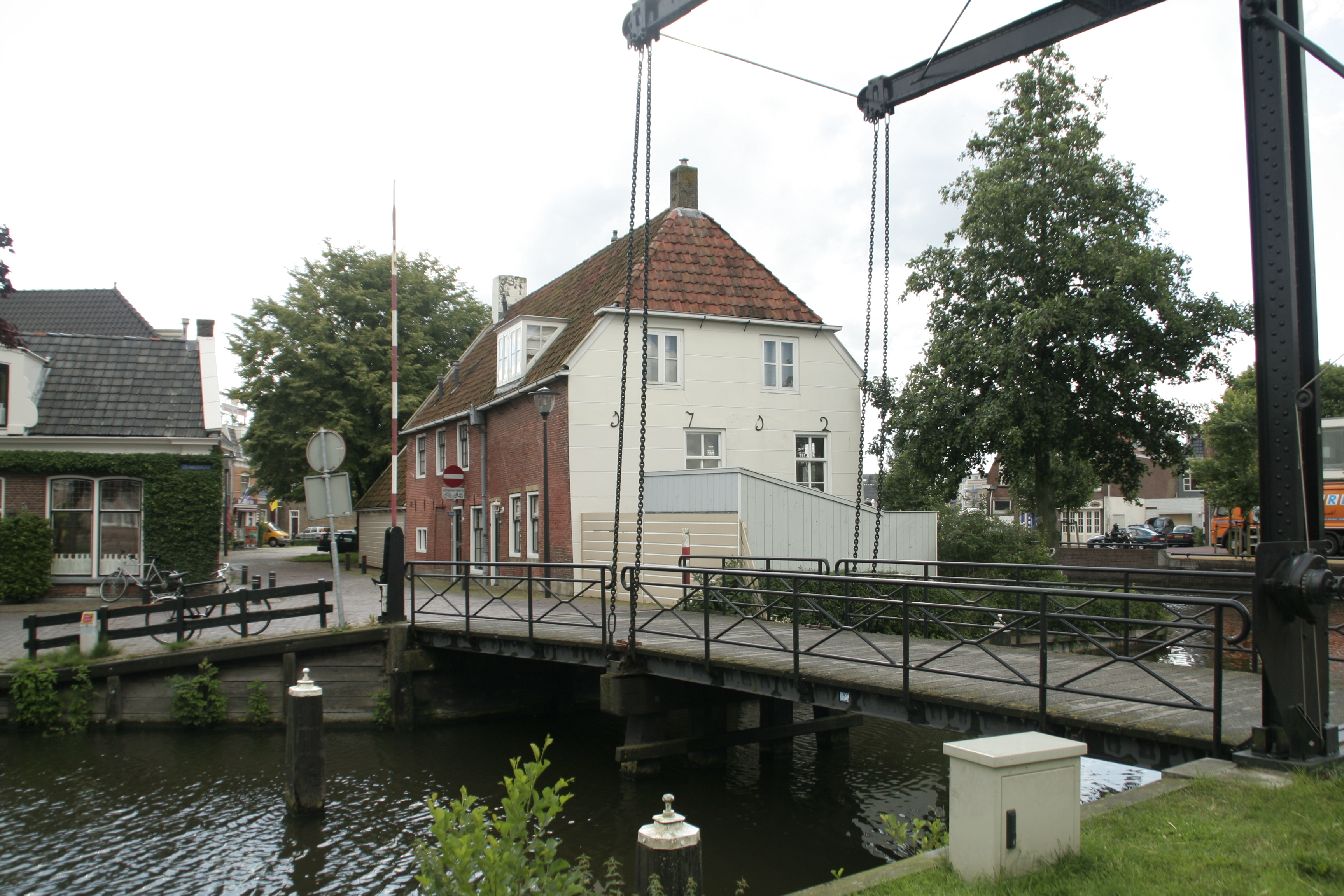 Jagershuis of Leeuwarder Veerhuis 35″ N, 5° 39′ 51.76″ E